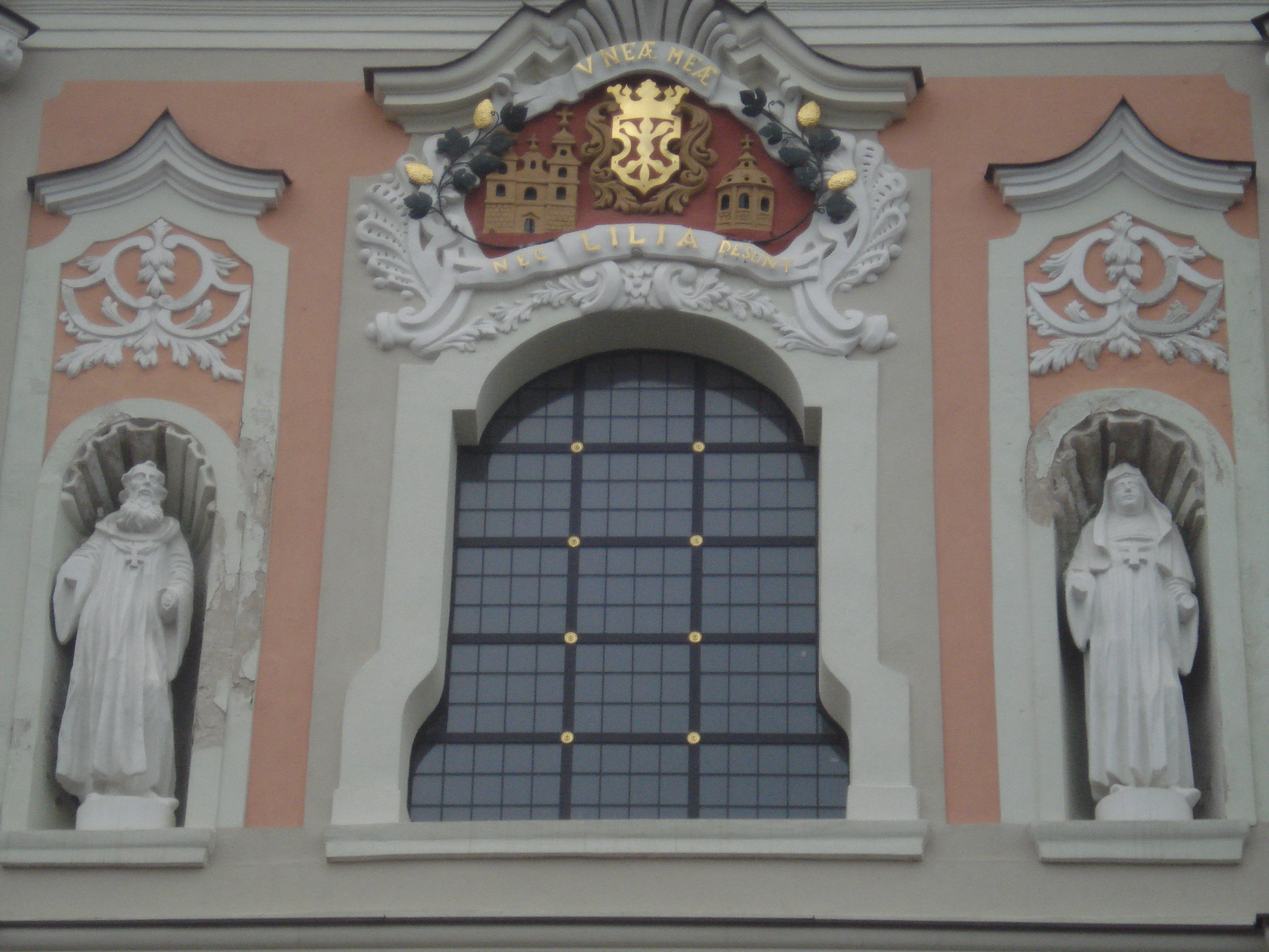 Church of St. Catherine in Vilnius (Vilniaus g. 30). Detail of the facade